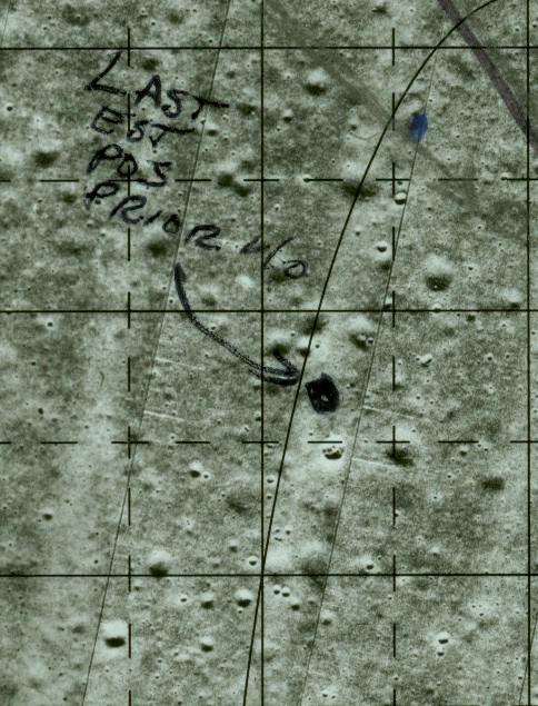 Partial map of the surface of the Moon with notations by astronaut Michael Collins made while in lunar orbit. Written "Last Bst Pos Prior L/O" indicating the estimated position of the lander.